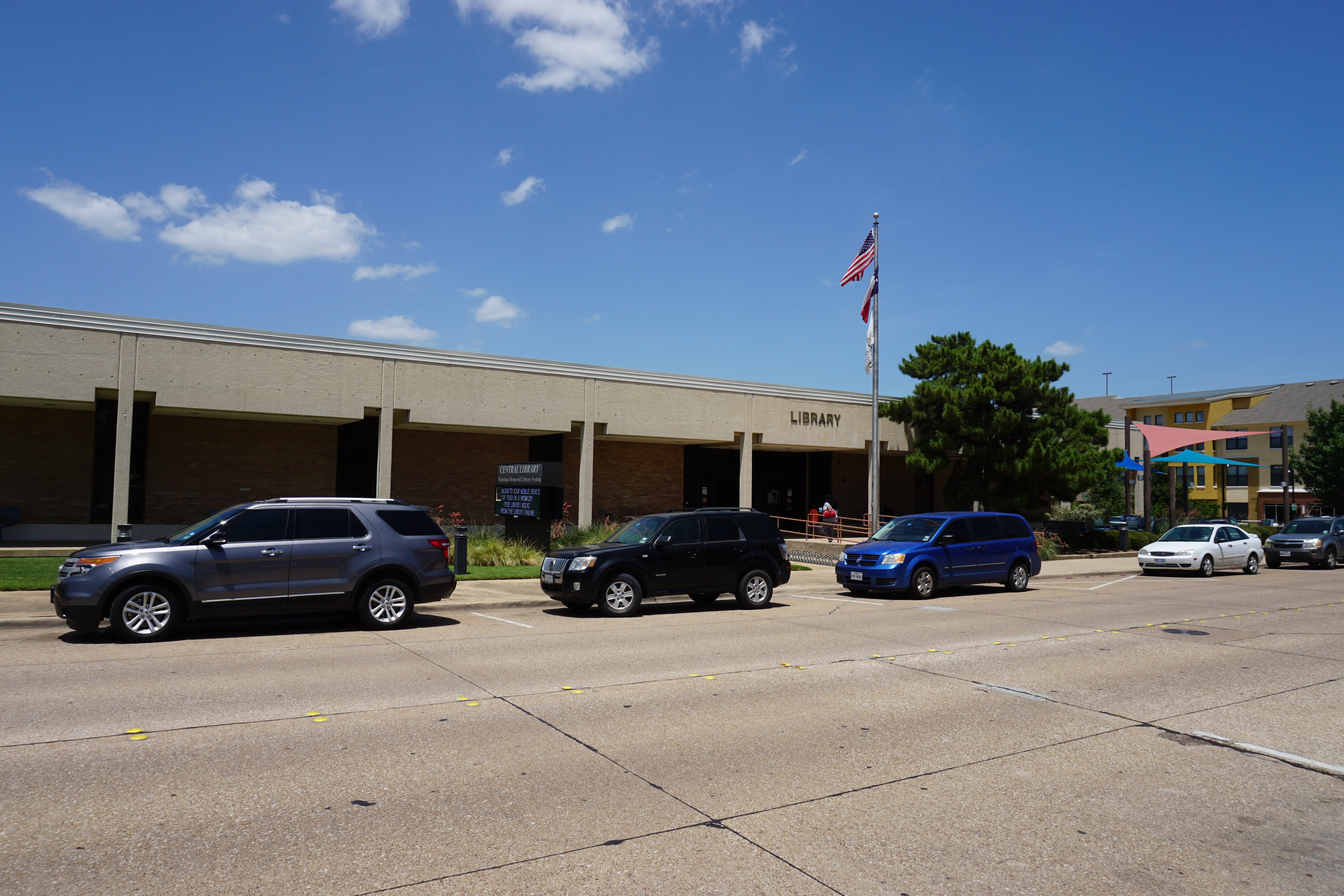 The Nicholson Memorial Library System's Central Library in Garland, Texas (United States).